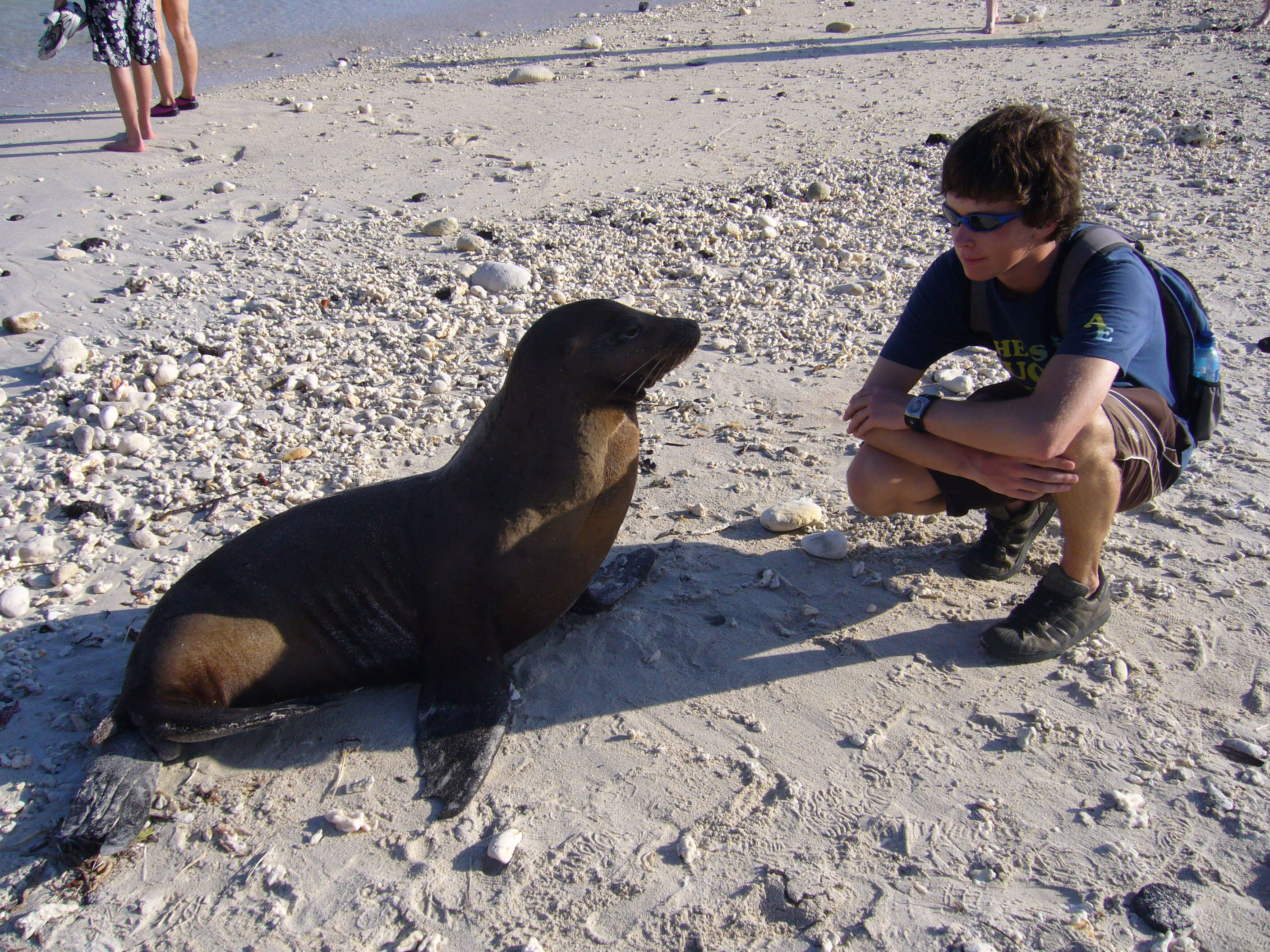 Galapagos see lion (Zalophus wollebaeki) with young male tourist